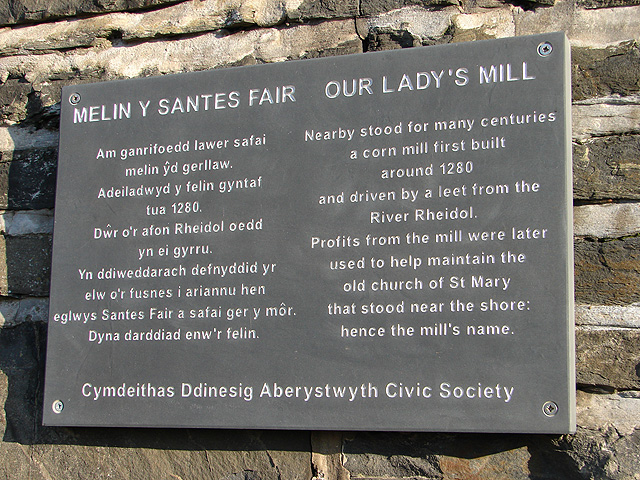 Our Lady's Mill Plaque at the junction of Mill Street and Riverside Terrace, Aberystwyth.